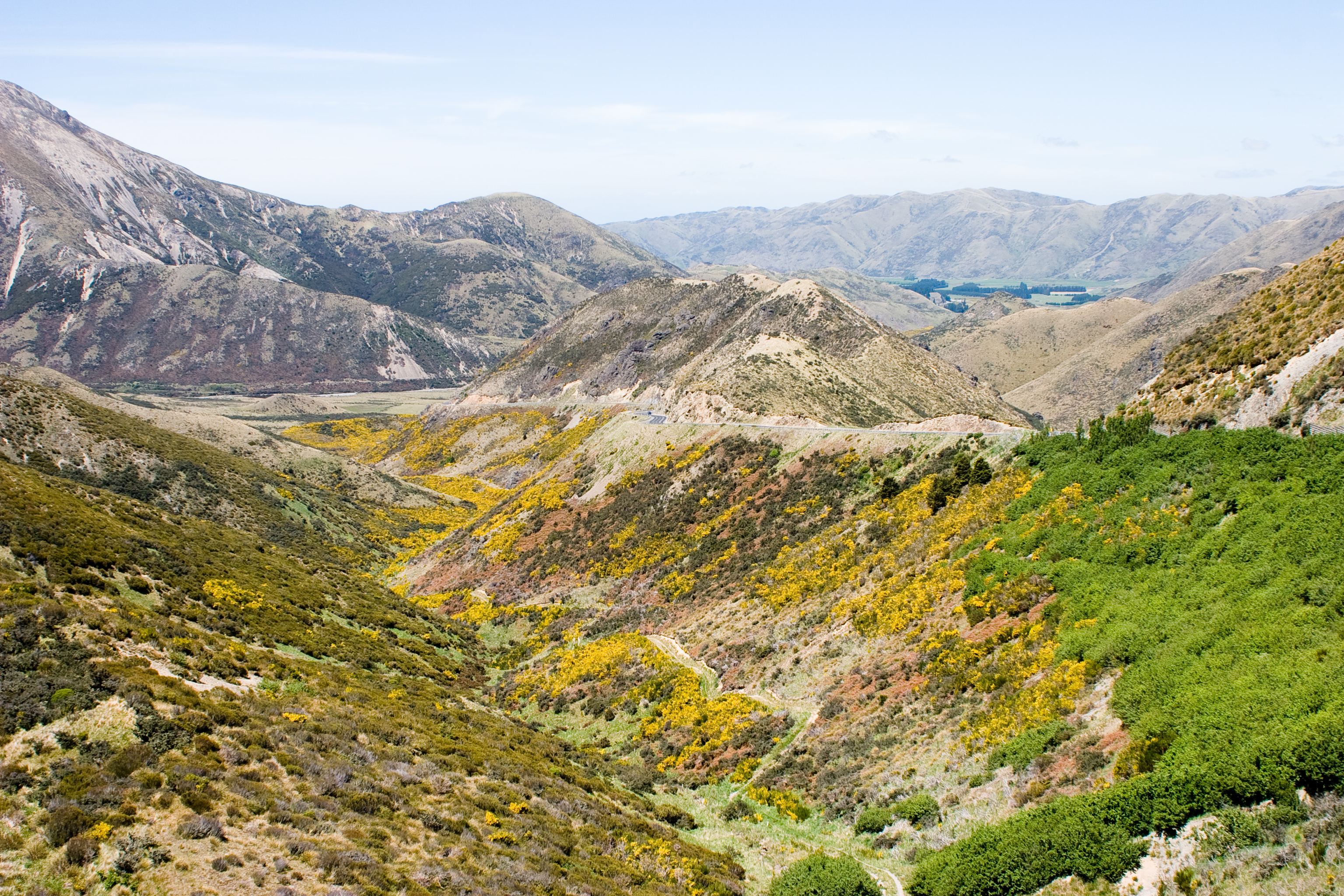 Long, steep and winding road. This photograph is more forgiving of the road than the road was on many car's radiator's. It used to be a common sight to see overheated cars stopped on this road heading up the 900 m to Porters Pass.